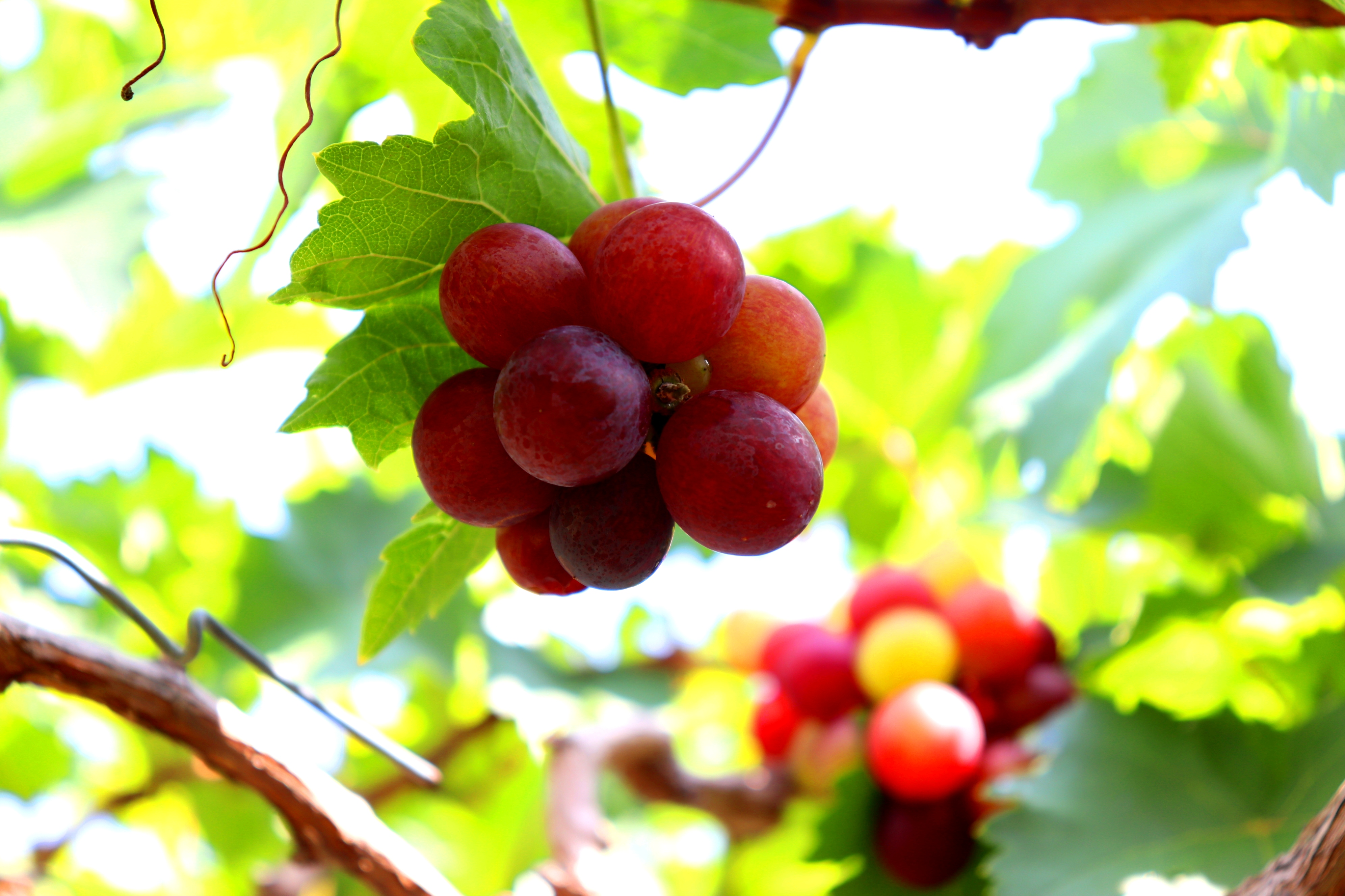 Grapes